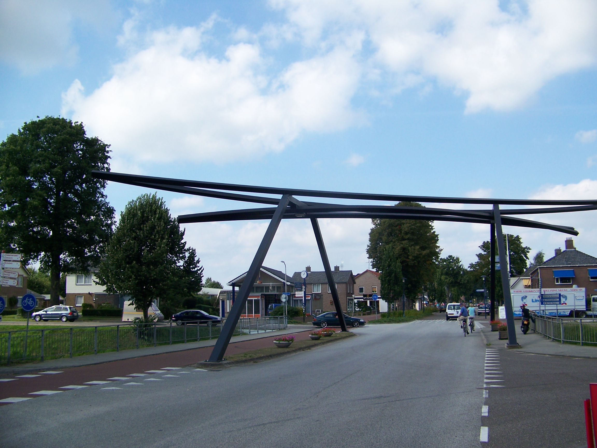 Structure in Schoonoord, Drenthe